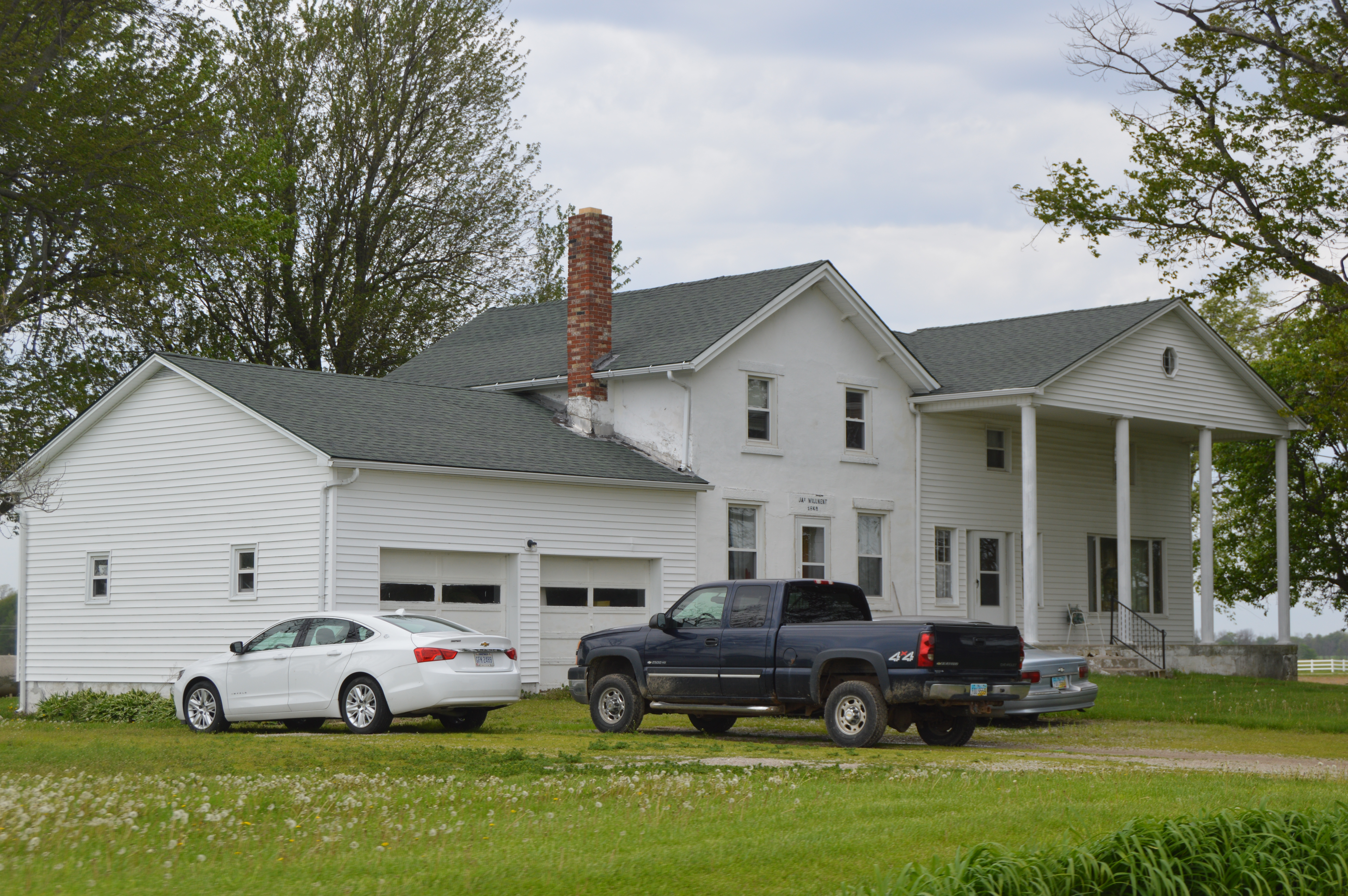 Front and southern side of a house located at 2840 New State Road south of North Fairfield in northern Ripley Township, Huron County, Ohio, United States. The central portion was built in 1849.